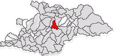 Limits of Budesti commune in Maramureş County